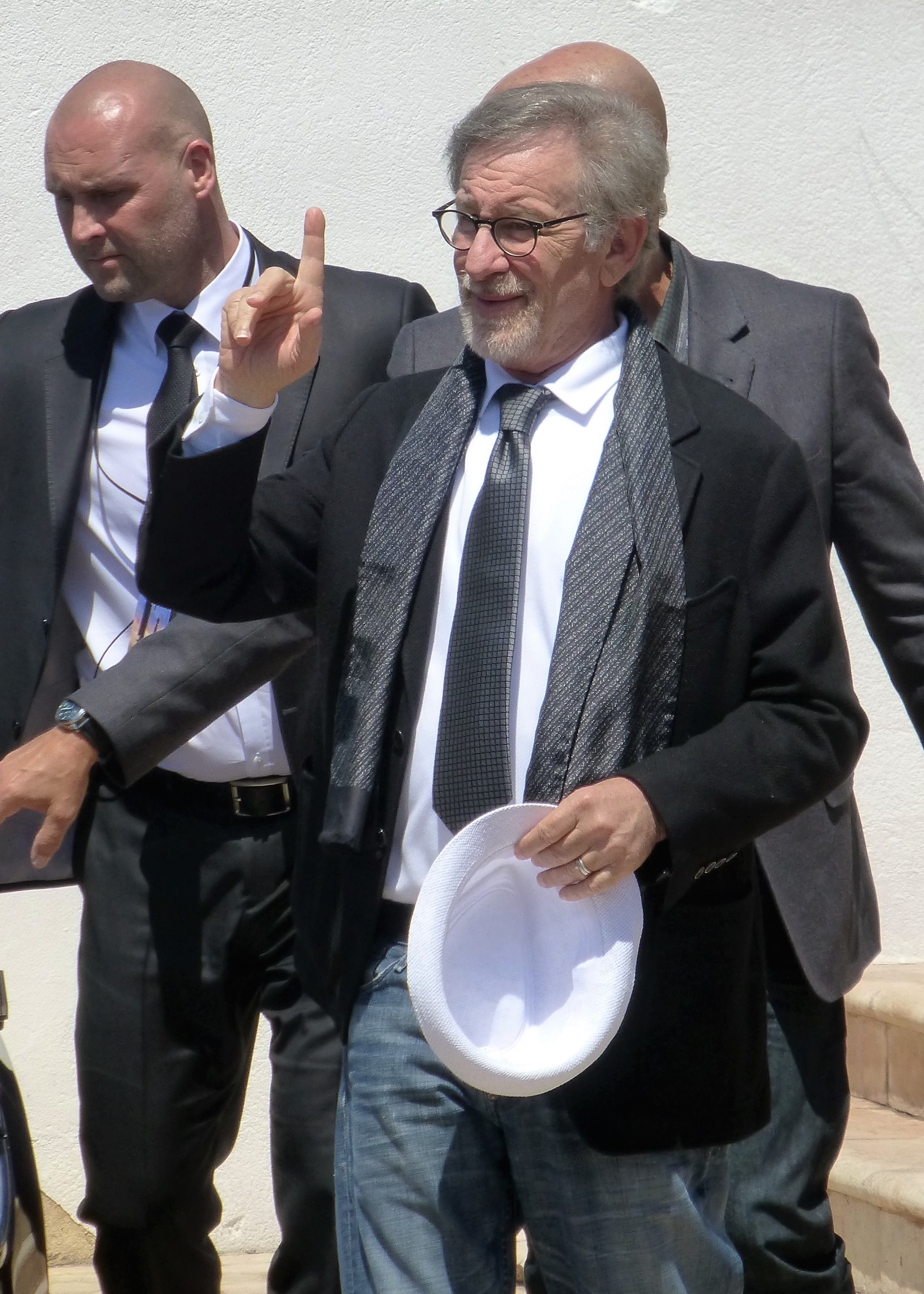 Steven Spielberg at the photocall of The BFG, 2016 Cannes Film Festival